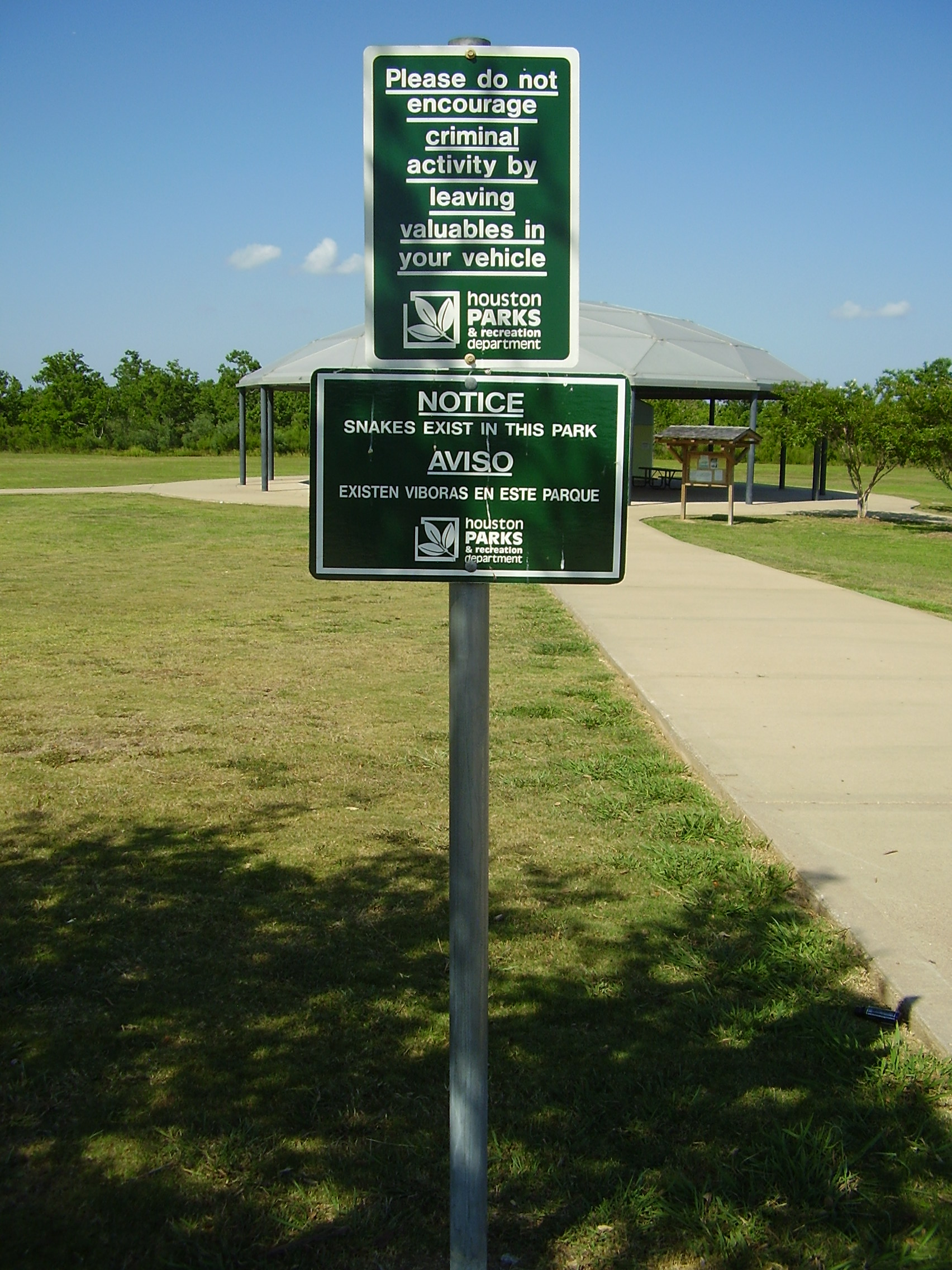 Sign at Sylvan Rodriguez Park in Houston warning against snakes - "Snakes Exist in this Park"